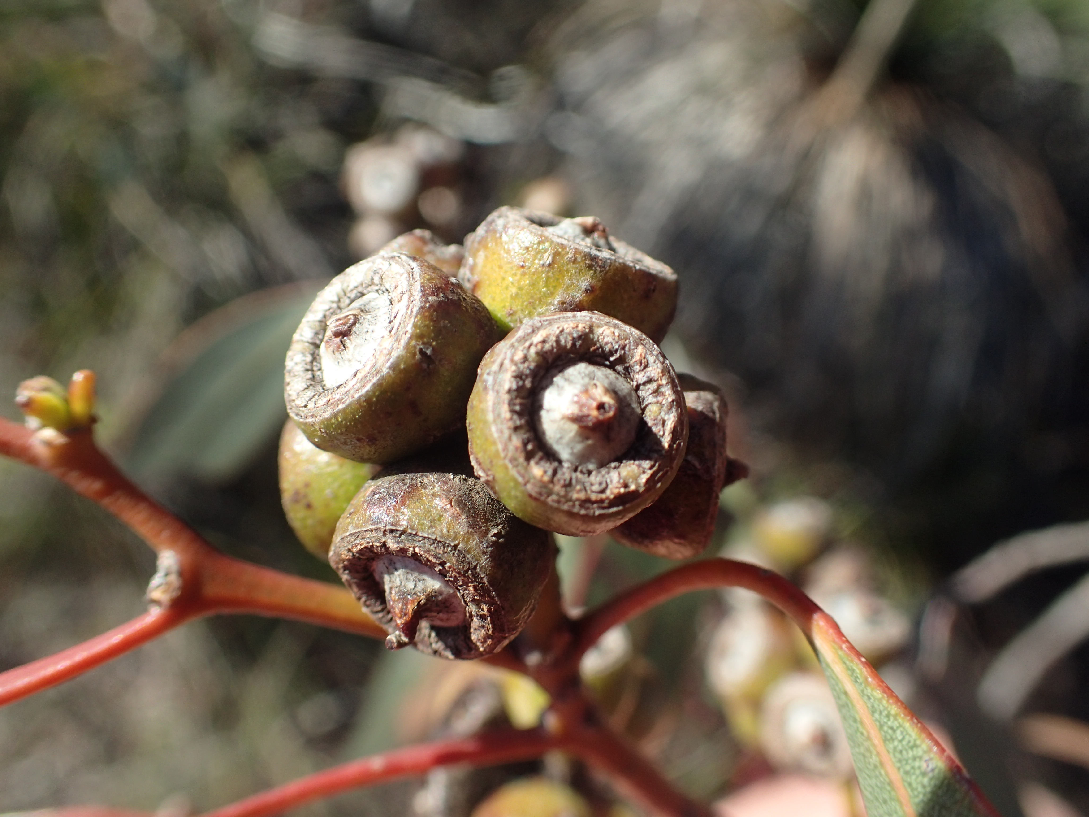 'Eucalyptus × balanites fruit near Badgingarra